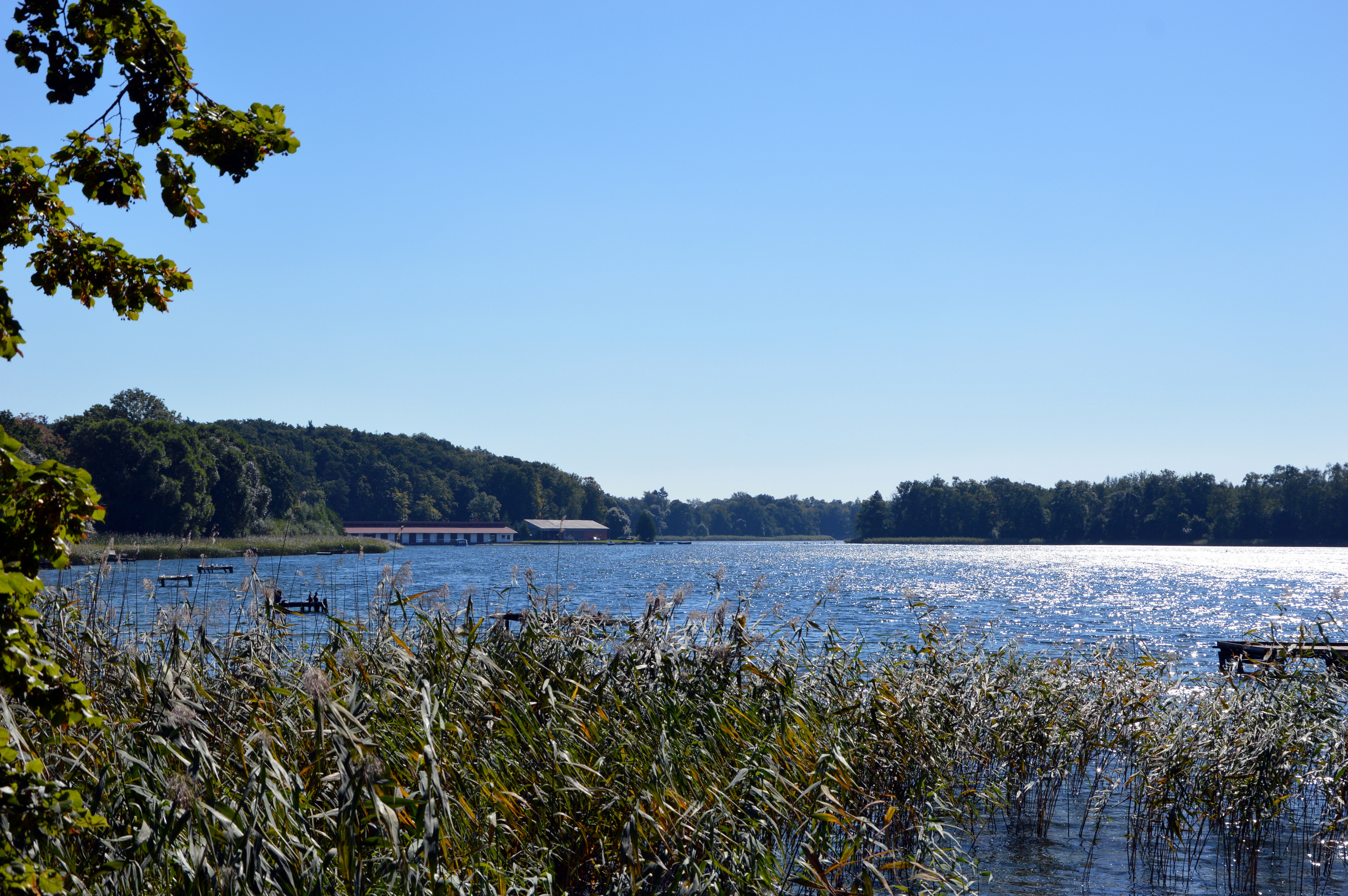 CHOSZCZNO